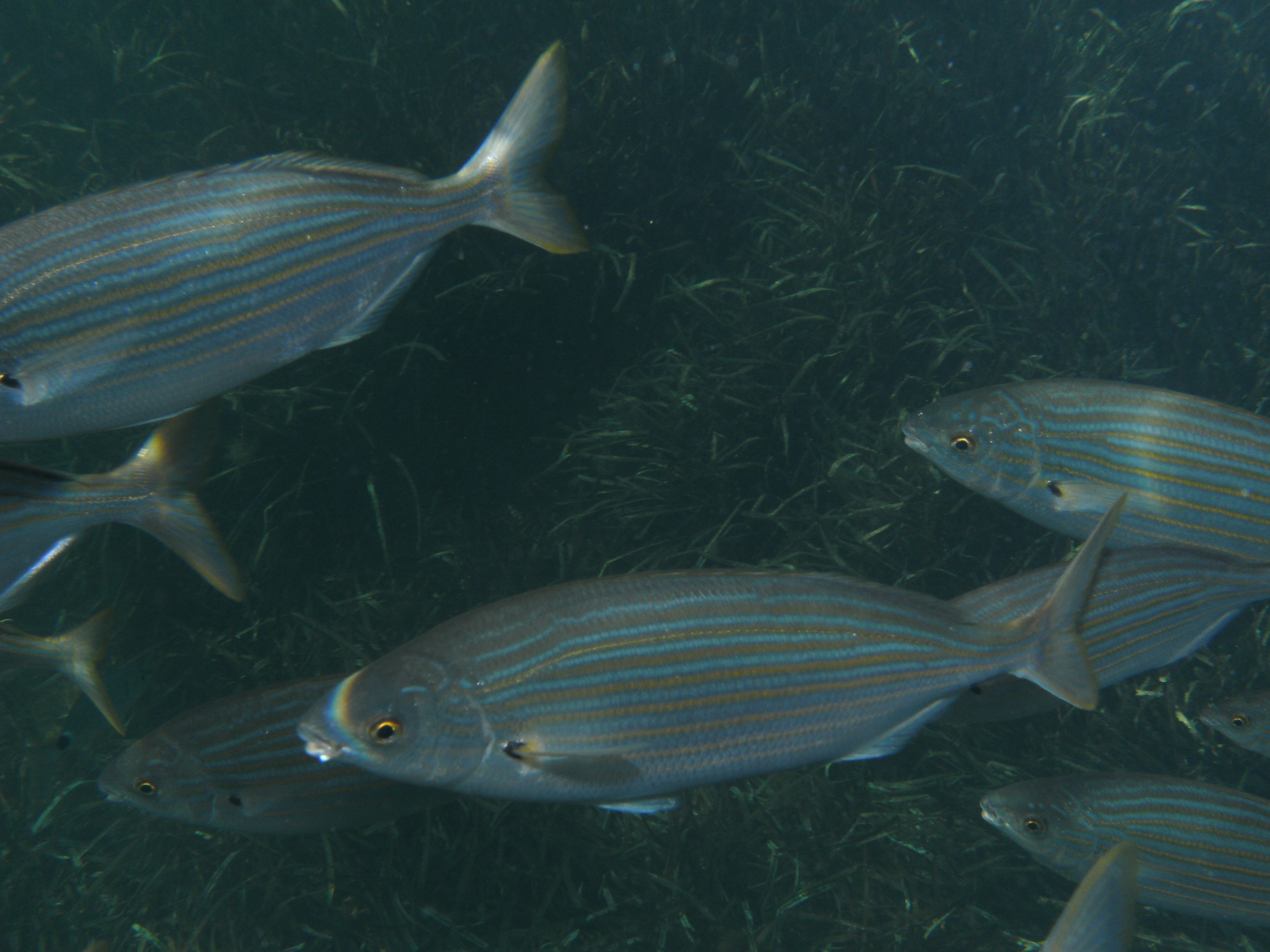 Sarpa salpa